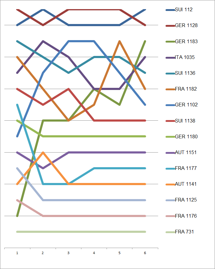 Tempest positions during the 2012 Vintage